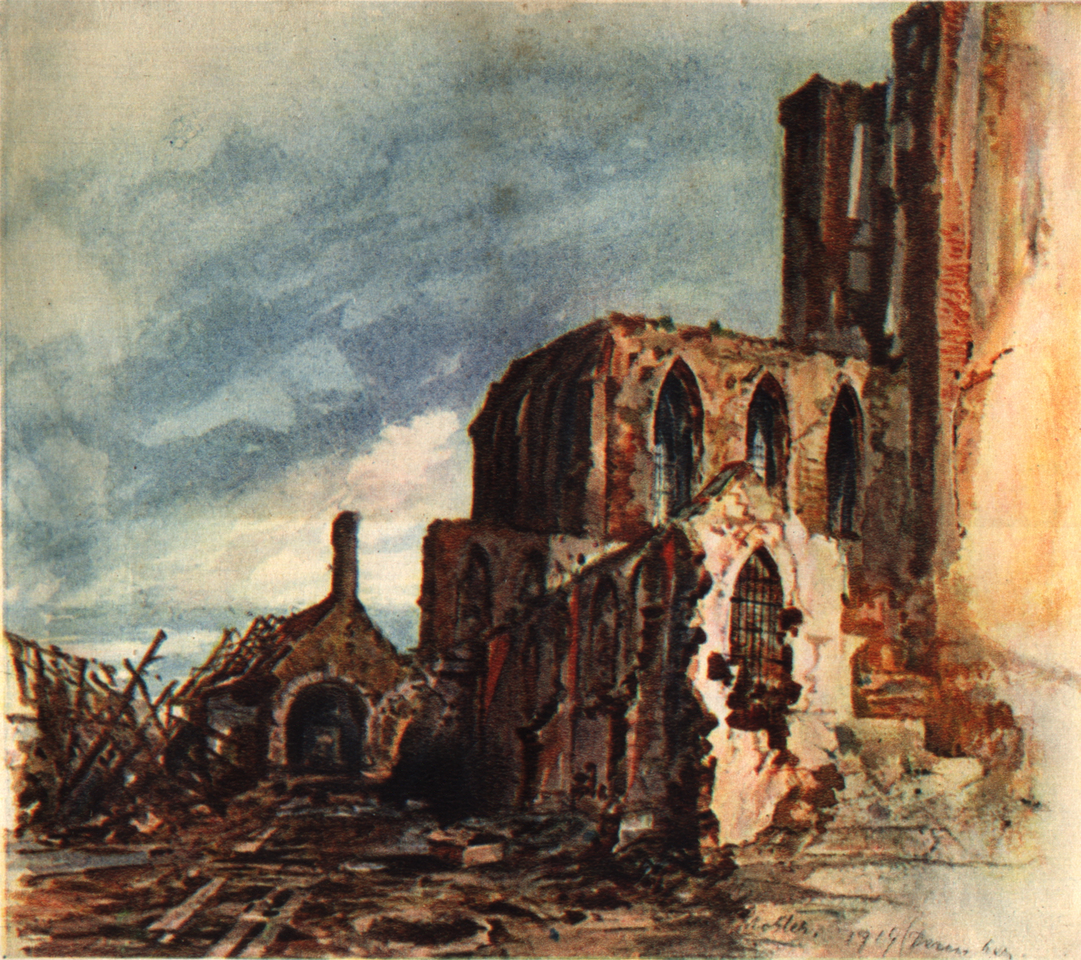 Watercolour of the front-line soldier Adolf Hitler: Ruin of a Monastery in Mesen (December 1914)